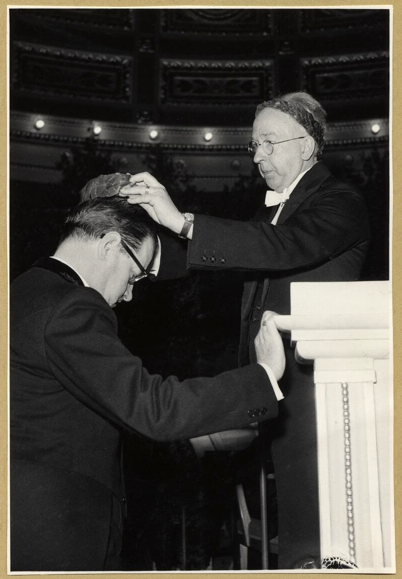 Sven Stolpe is promoted as PhD in 1959 by professor Victor Svanberg at Uppsala University.